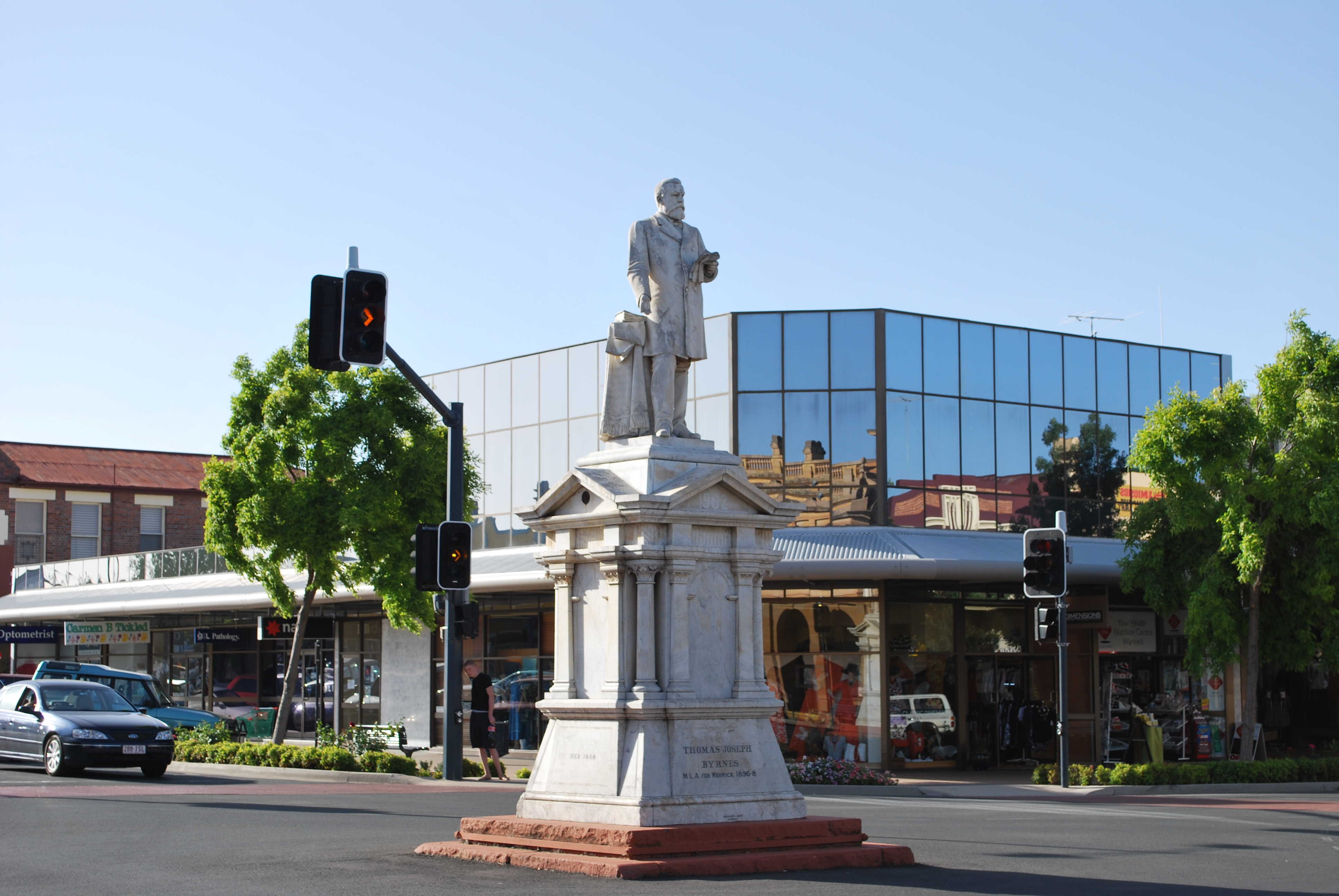 Statue of Thomas Byrnes (politician) in Warwick, Queensland